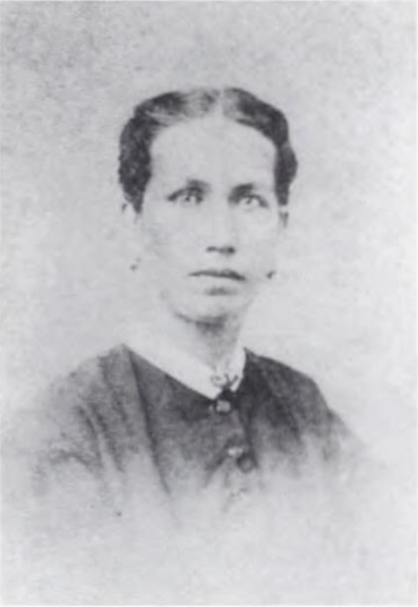 Julia Hope Kamakia Paaikamokalani o Kinau Beckley Fayerweather, a hapa-haole chiefess, her parents were Abram Henry Fayerweather and Mary Kekahimoku Kolimoalani Beckley, daughter of Captain George Beckley and High Chiefess Elizabeth Ahia. She married Chun Afong, with whom she had 16 children: Emmeline, Toney, Nancy, Mary, Julia, Elizabeth, Marie, Henrietta, Alice, Caroline, Helen, Martha, Albert, Melanie, Henry and James.